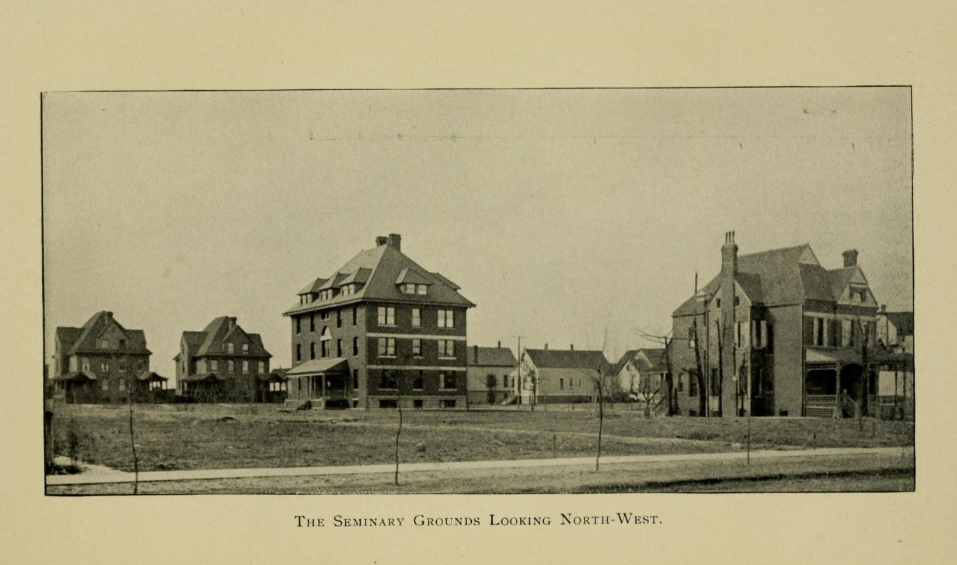 A view of the Chicago Lutheran Theological Seminary from Sheffield Avenue.